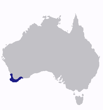 Range map of Red-winged Fairy-wren, Malurus elegans